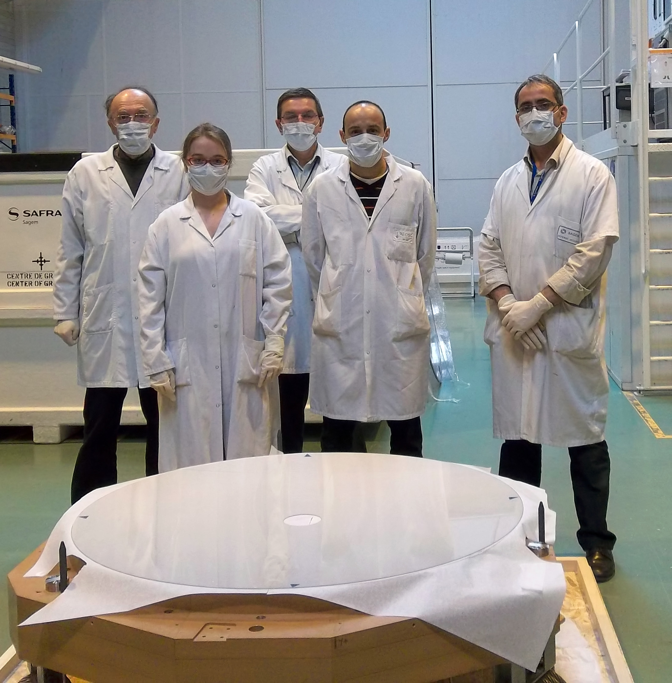 Engineers at SAGEM (France) stand behind a remarkable thin-shell mirror that they have created for the Very Large Telescope Adaptive Optics Facility. The shell is 1120 millimetres across but just 2 millimetres thick, making it much thinner than most glass windows.The mirror has to be thin enough to act almost like a flexible film. When installed in the telescope the shape of its reflective surface will be constantly changed by tiny amounts to correct for the blurring effects of the Earth’s atmosphere and create much sharper images.